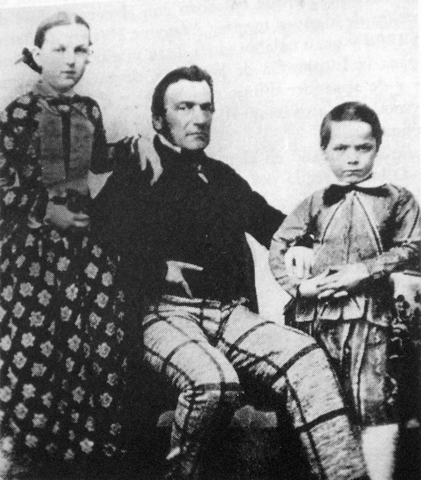 French painter Charles H. Pellegrini posing with his daughter Julia and son Carlos, who would be later president of Argentina.